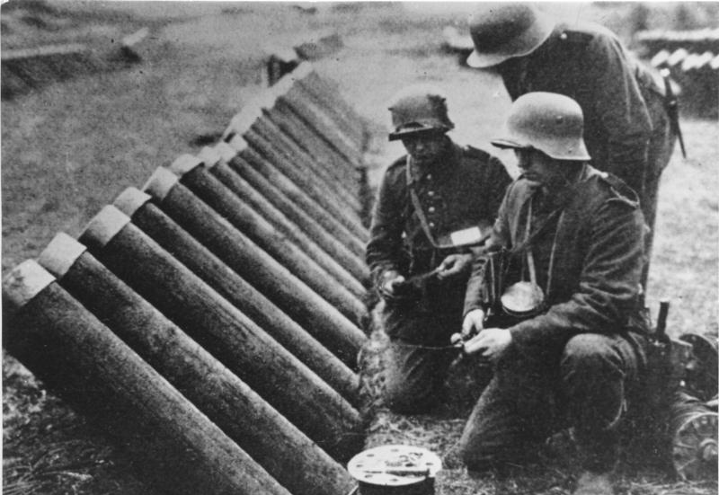 1916, german western front, 18cm calibre "Gaswerfer" are prepared. Mortar-like devices to throw containers with poisonous gas into enemy positions.